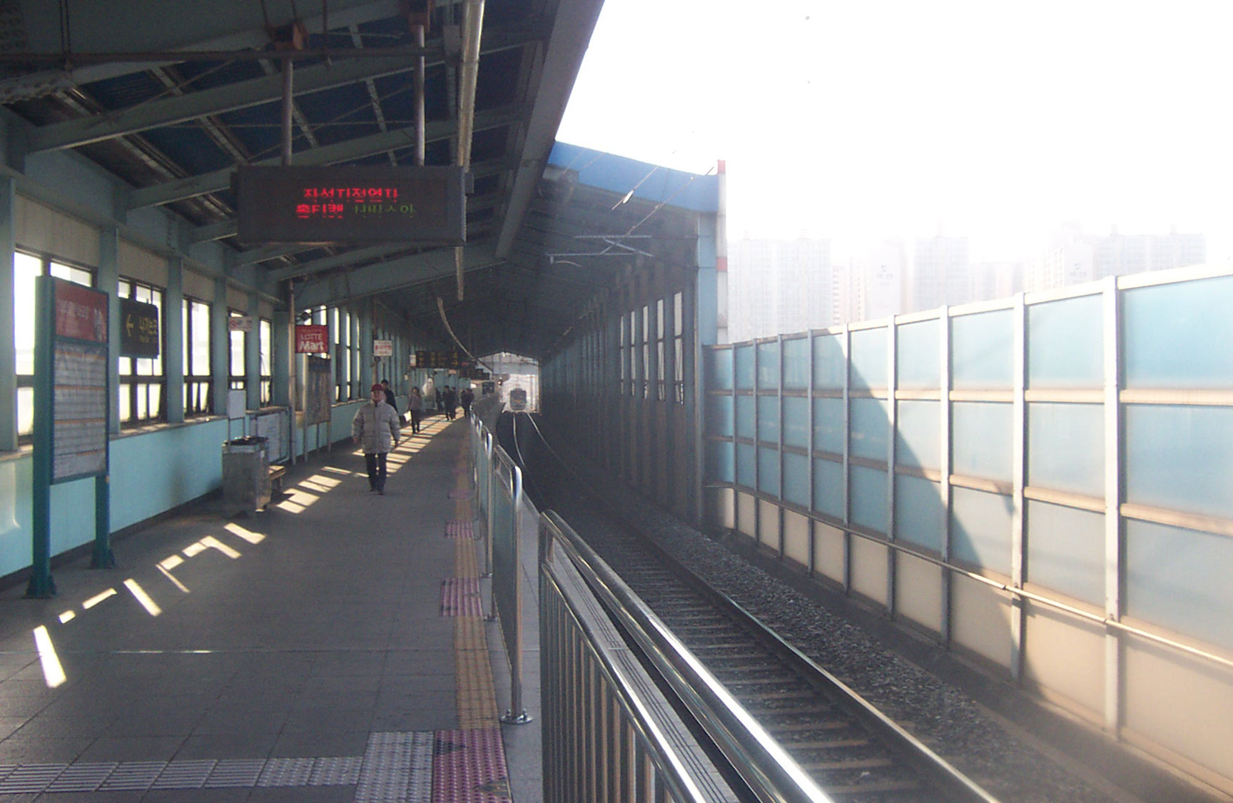 Guil Station platform (2nd floor)